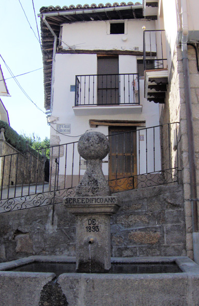 Pilón y Arquitectura popular en Mombeltrán RED.JPG